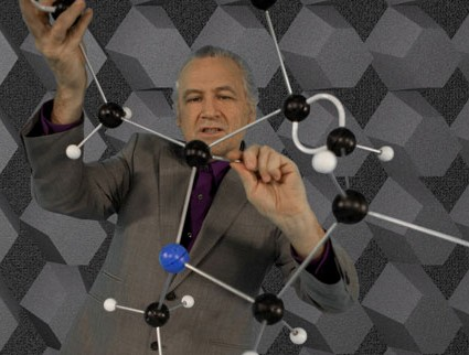 Photo of artist Gary Hill in his work "The Psychedelic Gedankenexperiment,"